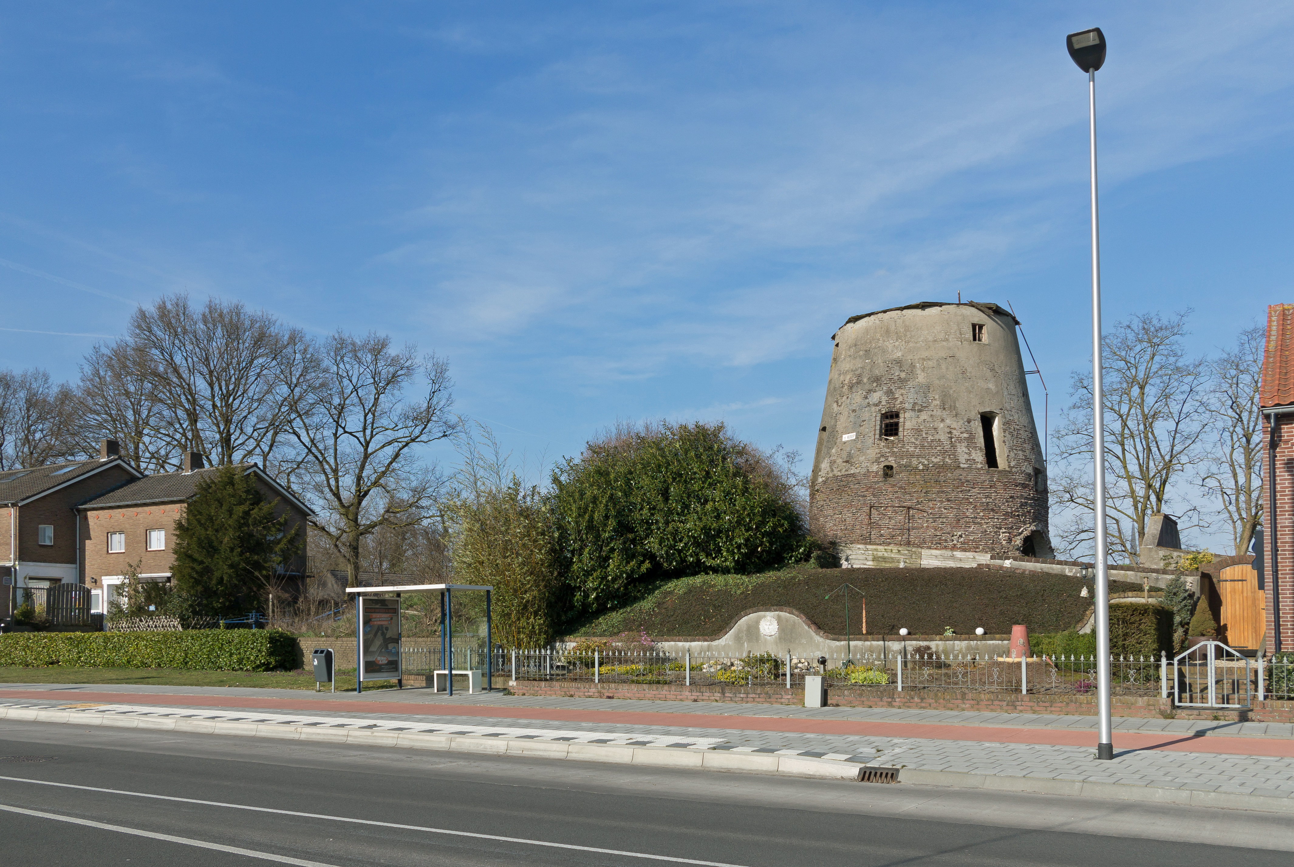 Milsbeek, former windmill at de Rijksweg